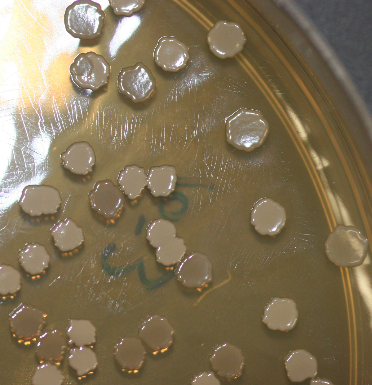 photo by me user debivort, taken 2006, uploaded 2007